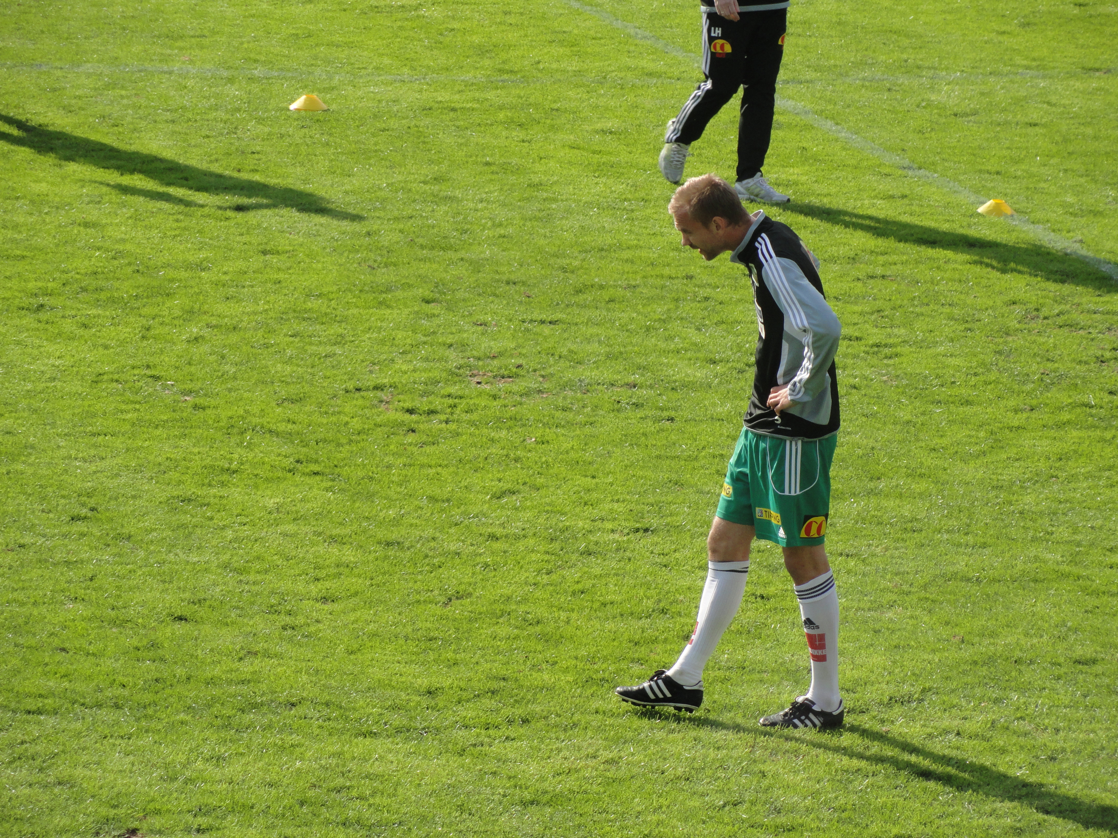 Picture of Pål Ekeberg Schjerve